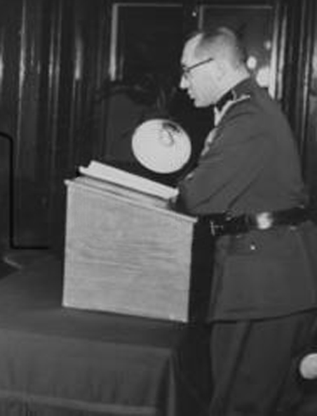 Wacław Lipiński (1896-1946), Polish historian, military officer and resistance fighter, recipient of Virtuti Militari Silver Cross. Photograph taken in November 1938 at a lecture given by Lipinski at the Polish Academy of Sciences, entitled "Józef Piłsudski as a writer".